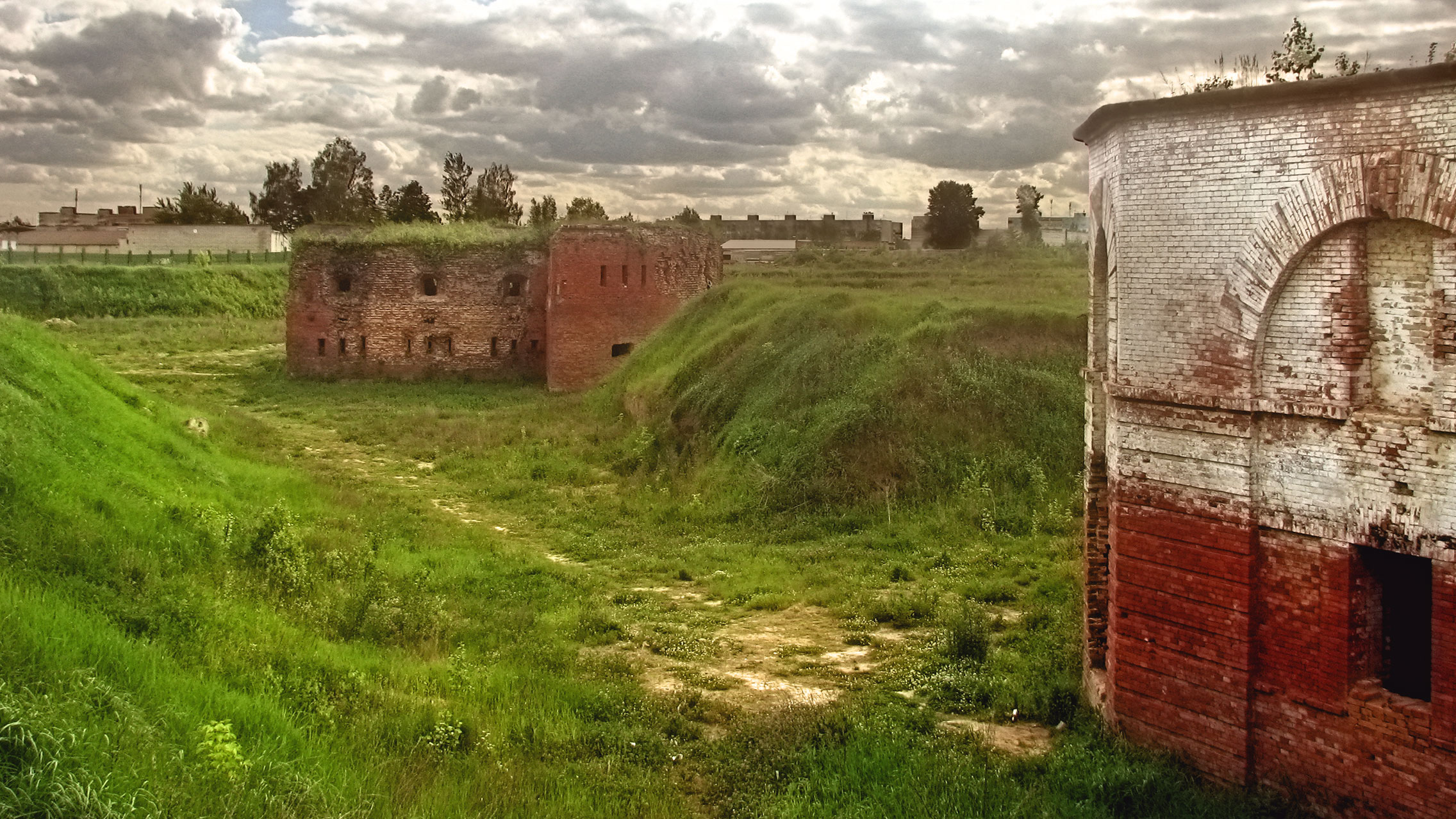 Беларуская (тарашкевіца): Крэпасць. г. Бабруйск This is a photo of Belarusian heritage monument. Reference number: 512Г000059 ( WLM)